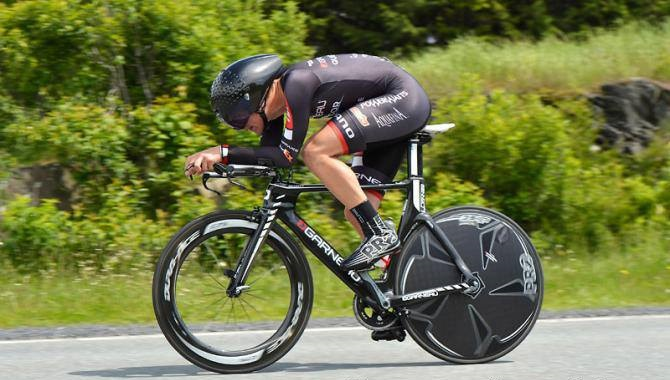 Alex Cataford riding for Garneau-Québecor during a Time Trial